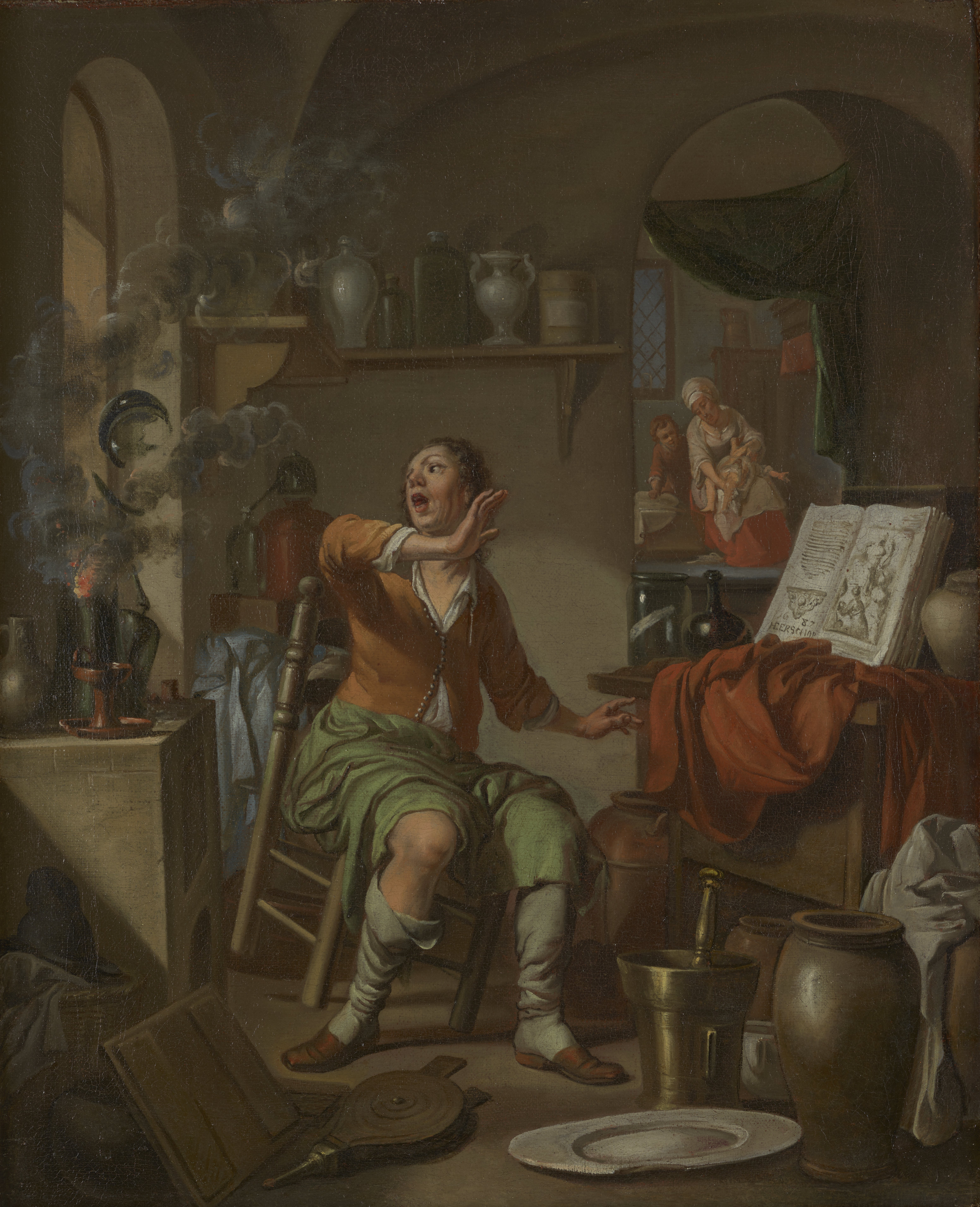 The alchemist's experiment has erupted in a fire, with glass shattering in midair and smoke billowing upward. In foreground an explosion at left shows smoke, fire and flying glass shards from a shattered alembic. Another alembic and receiver can be seen behind the chymist's upraised arm. The luting used to seal the mouth of the receiving bottle to the beak of the alembic is clearly visible. The alchemist is seated awkwardly in his chair with a startled expression on his face. His chair has only one leg on floor and he is moving toward an open book showing the artist's name. He is seated near a table, with a red cloth and open book. Foreground floor has bellows, mortar and pestle, and a pewter plate with a piece cut from its rim, suggesting that the chymist has been attempting to turn base metals into gold or silver. Through an arched doorway in right background, we see an adjoining room where a seated woman, presumably the alchemist's wife, wipes her baby's bottom. A second child stands nearby. This painting is an example of Dutch Golden Age painting. The colors are bright and cheerful: a red cloth is on the table; blue cloth is in the background, and the alchemist wears green trousers.